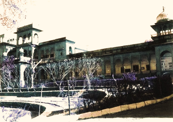 ACADEMIC CAMPUS, Dholpur Military School DMS, former Kesarbagh palace, the mansion of the former ruler of the erstwhile Dholpur State, Rajasthan.